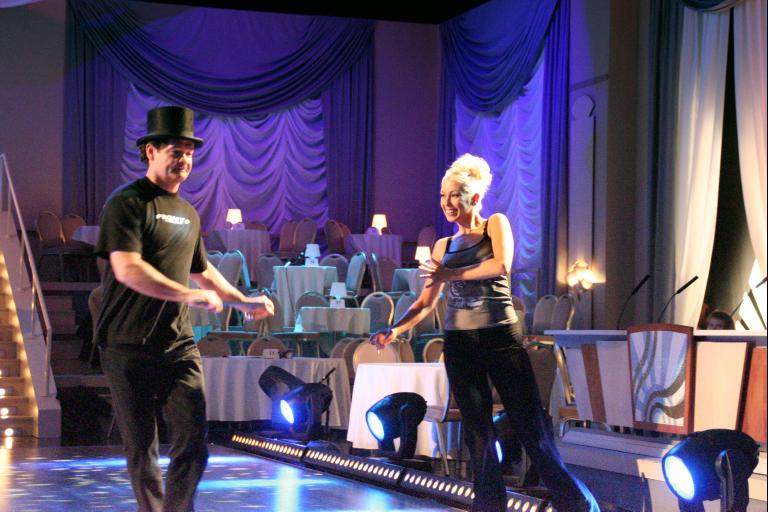 Norwegian TV dance contest, "Skal vi danse": participant, former heavy-weight champion Steffen Tangstad